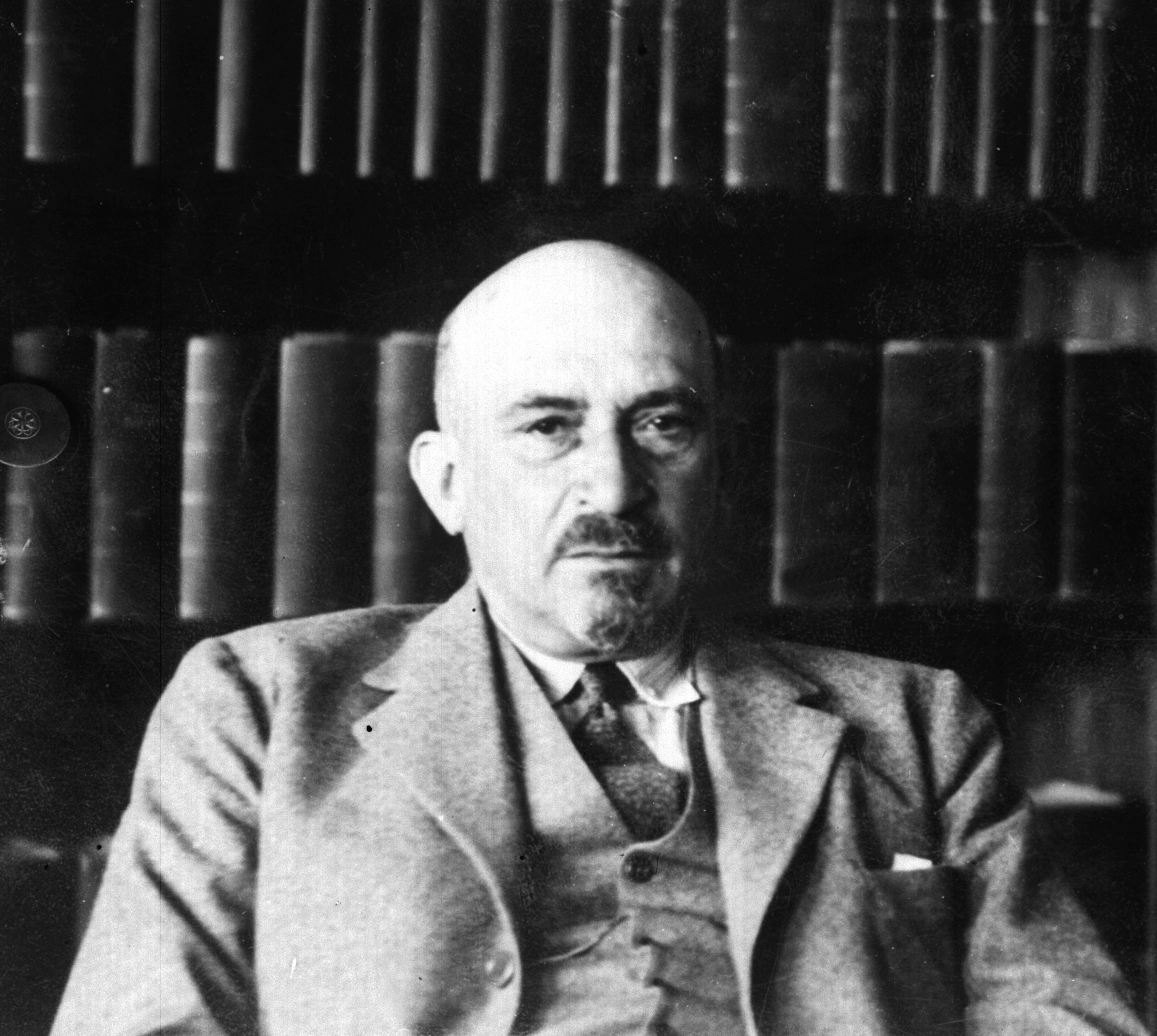 PROF. HAIM WEIZMAN. פרופסור חיים וייצמן.